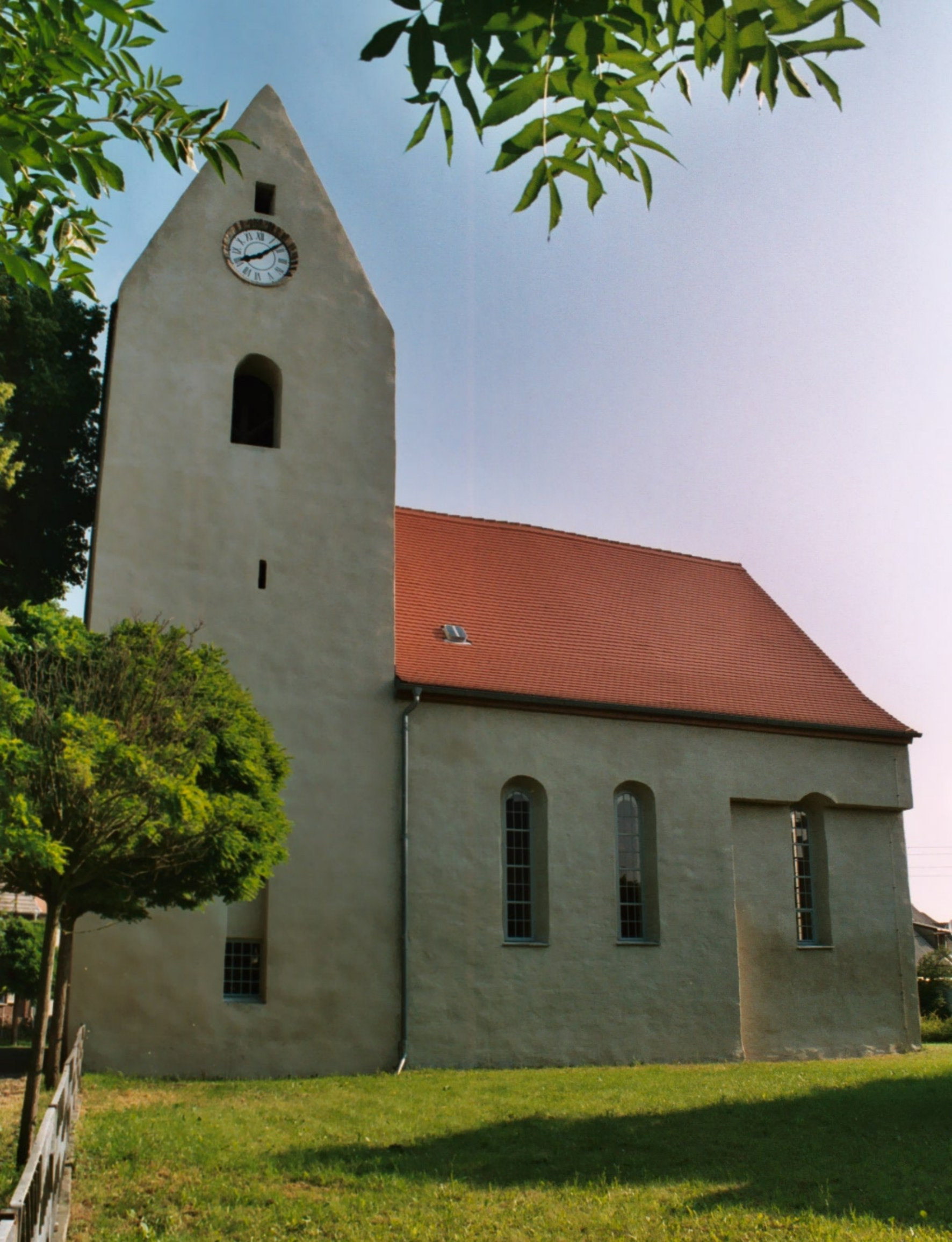 Tornitz (Barby)- the village church St. Nicolai